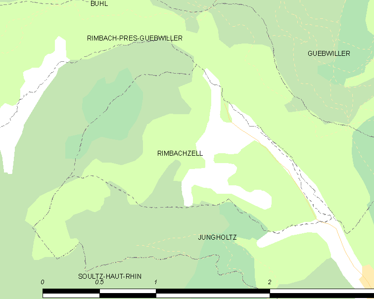 Map of French municipality